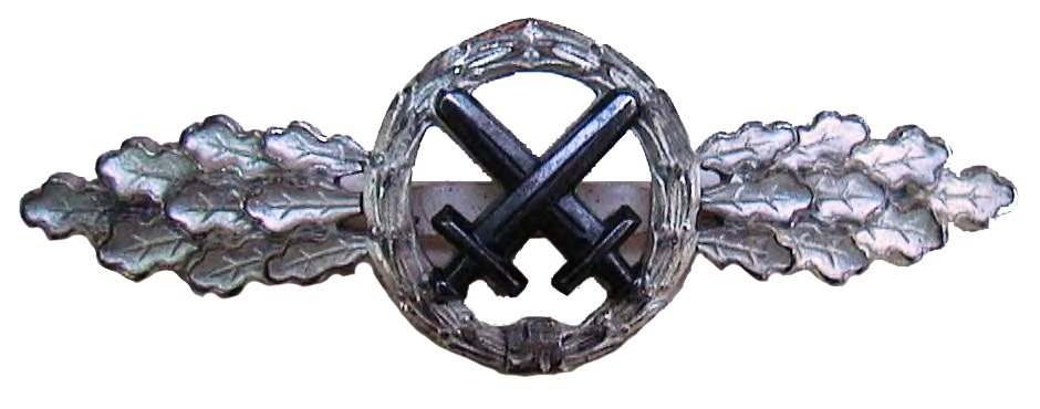 German Front Flyer Clasp - 1944 (Strike fighter)